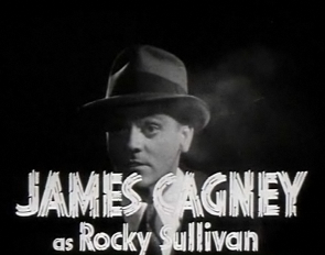 screenshot of James Cagney from the film Angels with Dirty Faces